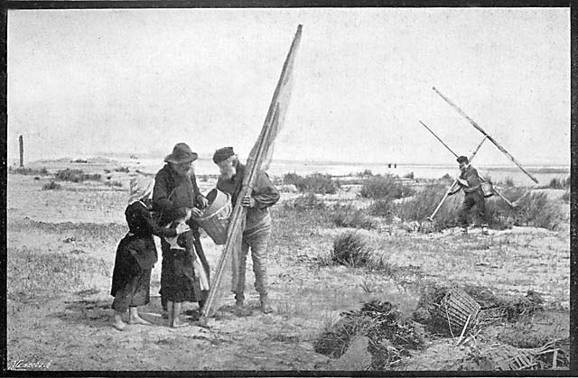 A strange fish